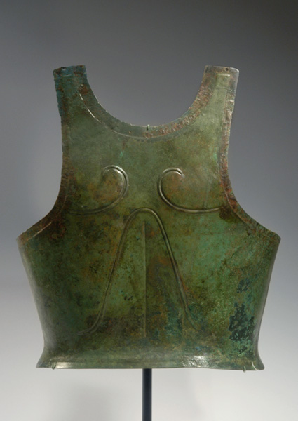 A 6th c. BCE bell cuirass